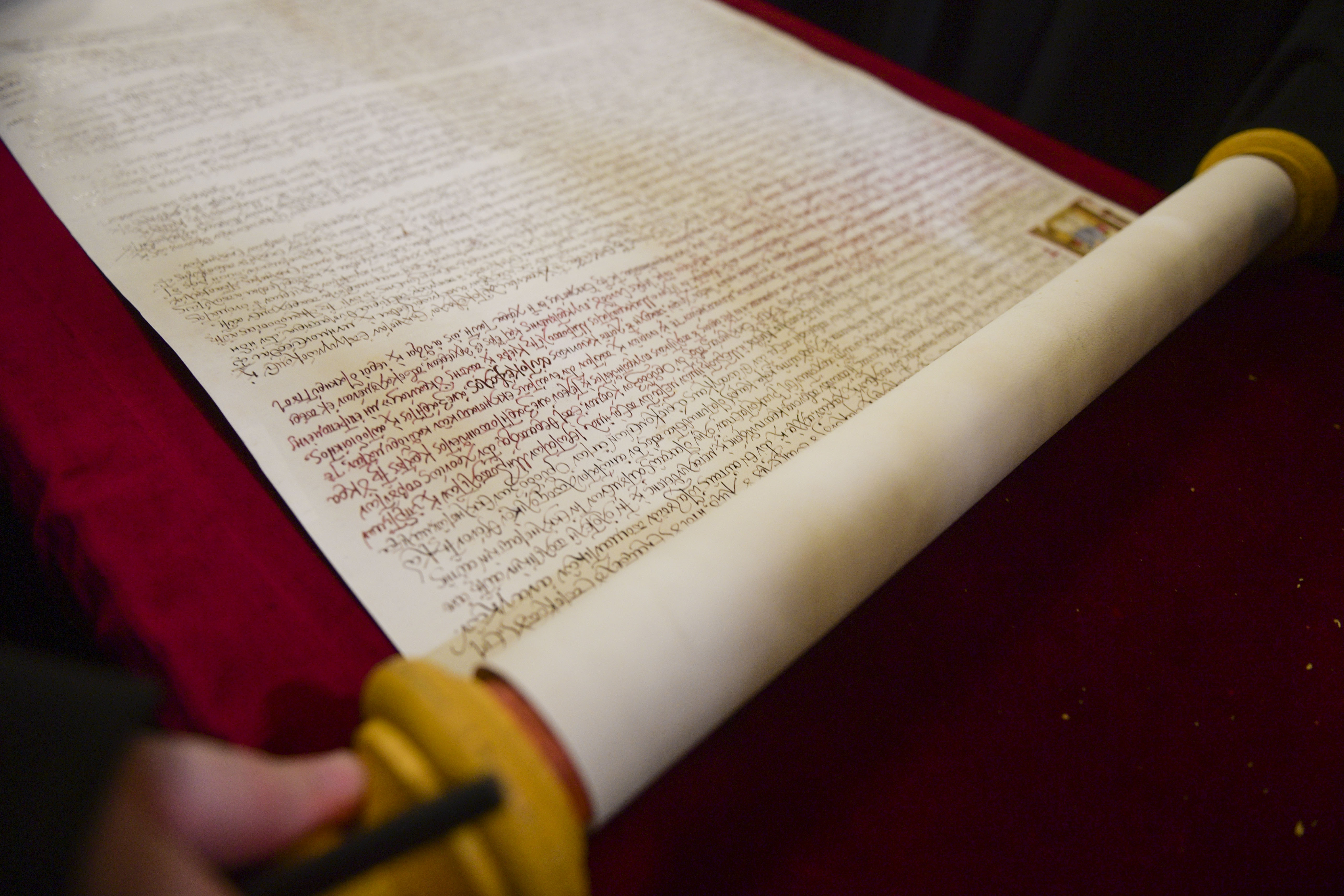 Working visit of the President of Ukraine Petro Poroshenko to the Turkish Republic (2019-01-05)